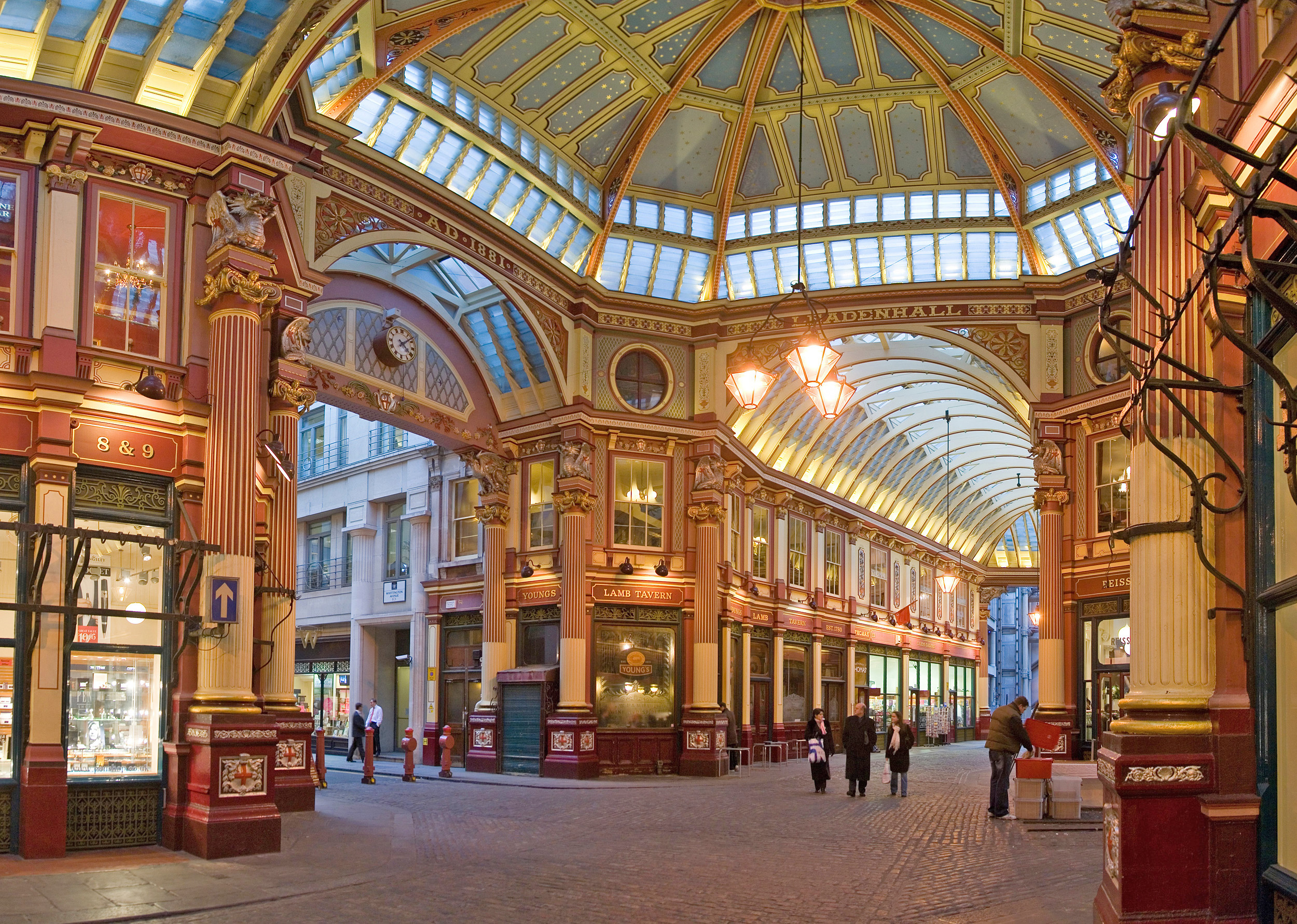 This is a panorama of 3 segments taken with a Canon 5D and 24-105mm f/4L IS.